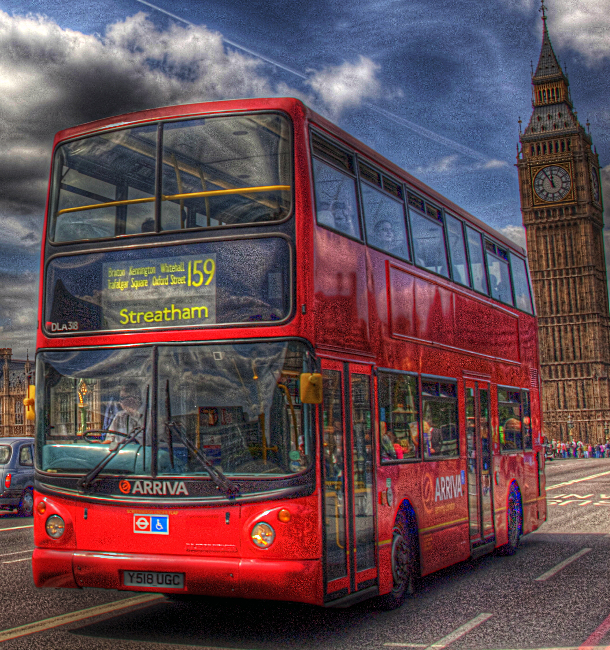 A heavily processed image of Arriva London South bus DLA318 (reg. Y518 UGC), a 2001 DAF DB250 double-decker with Transbus ALX400 bodywork, pictured heading east on Westminster Bridge in London, operating London Buses route 159 en route to Streatham.